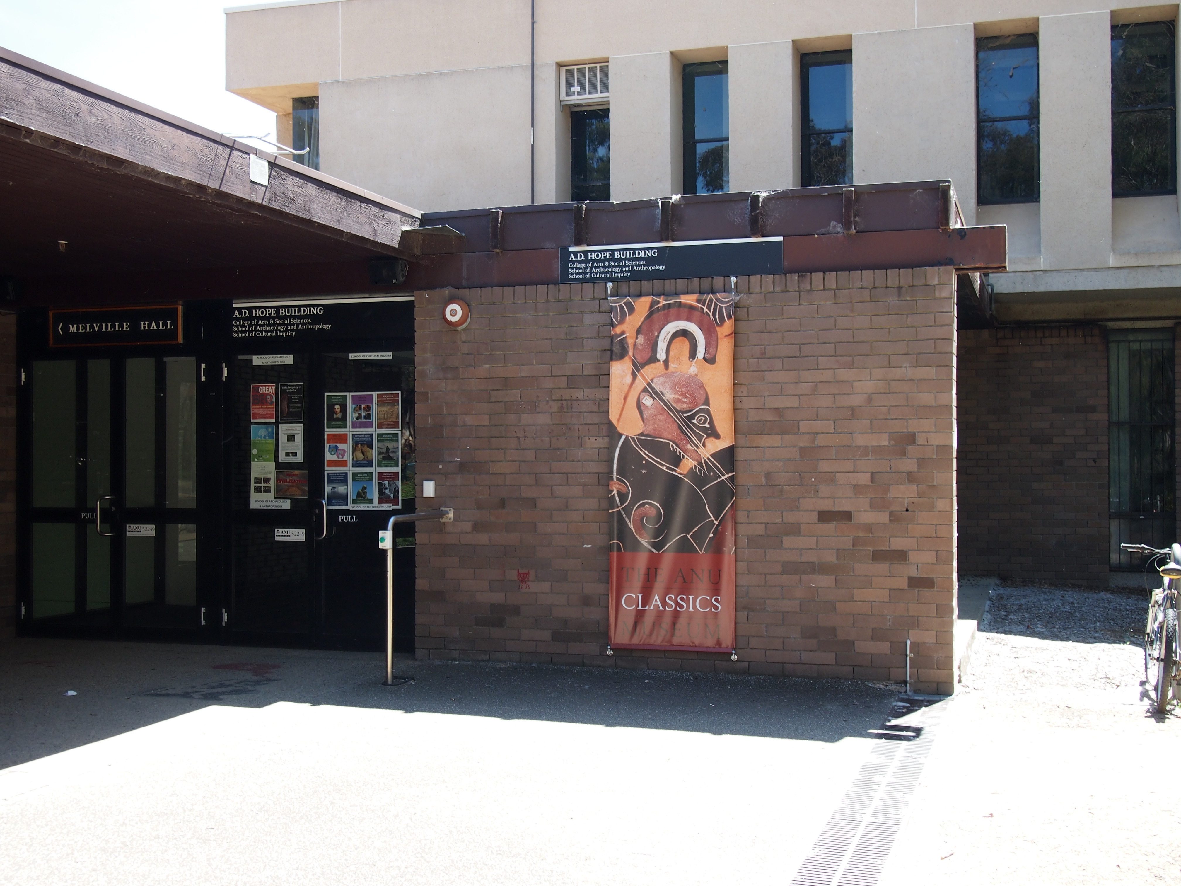 The eastern entrance of the AD Hope building at the Australian National University, and a sign advertising the ANU Classics Museum